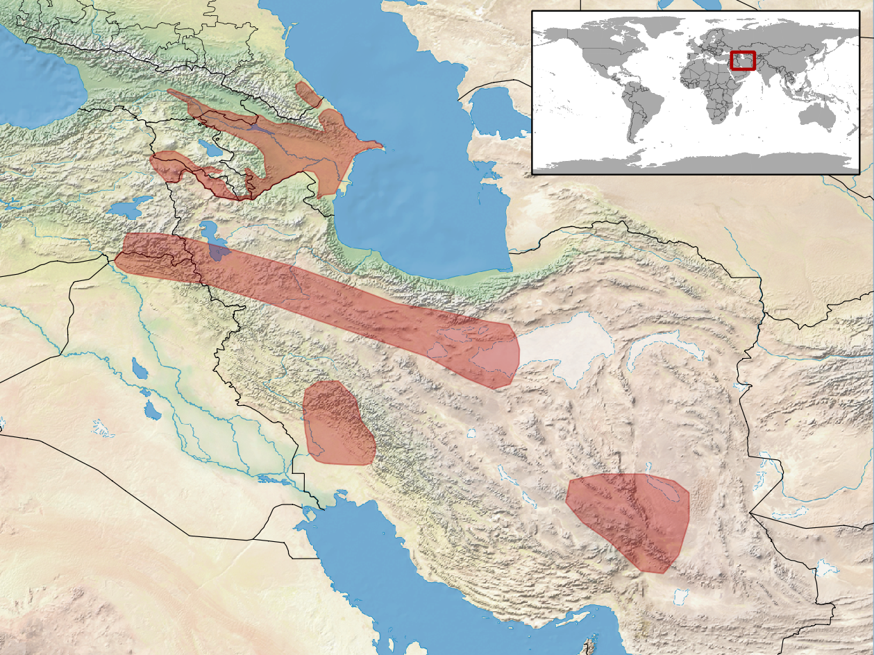 geographic distribution of Eirenis collaris (Native: Armenia (Armenia); Azerbaijan; Georgia; Iran, Islamic Republic of; Iraq; Russian Federation; Turkey)